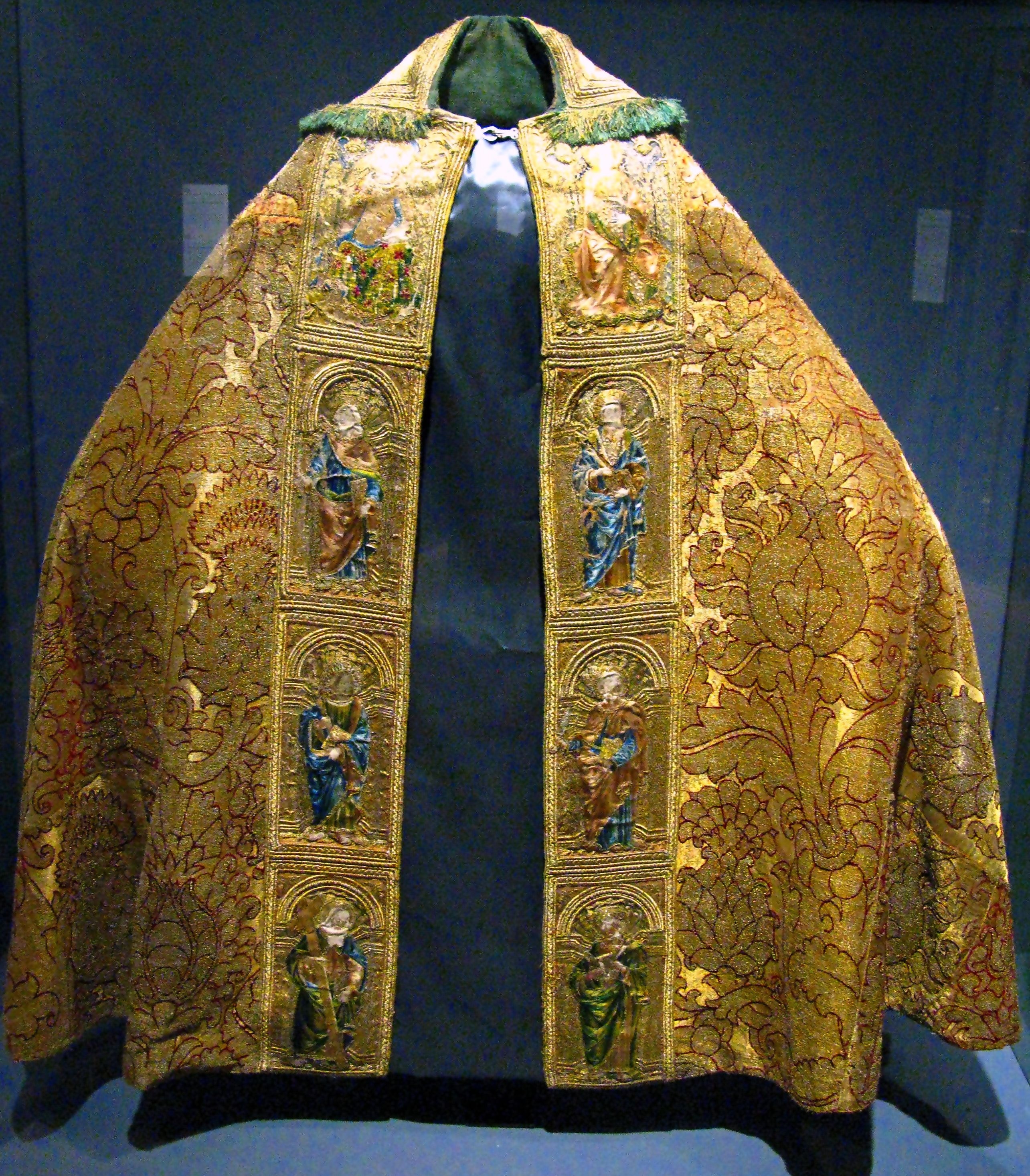 Cape designed by Domenico Ghirlandaio, Florence XV century